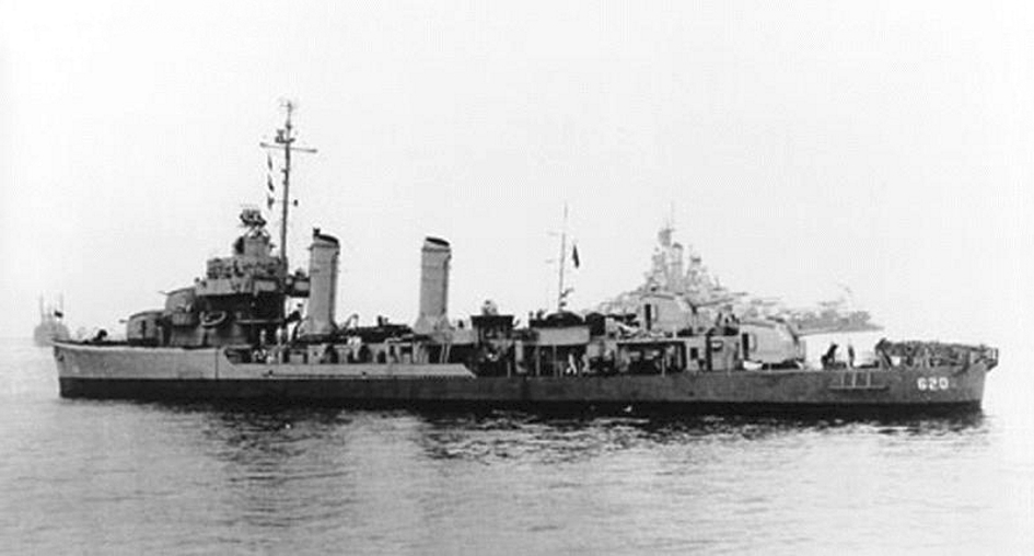 United States Navy destroyer USS Glennon (DD-620), circa 1944. The ship in the center background is probably the battleship USS Nevada (BB-36) which would palce the photo in the period just prior to D-Day.